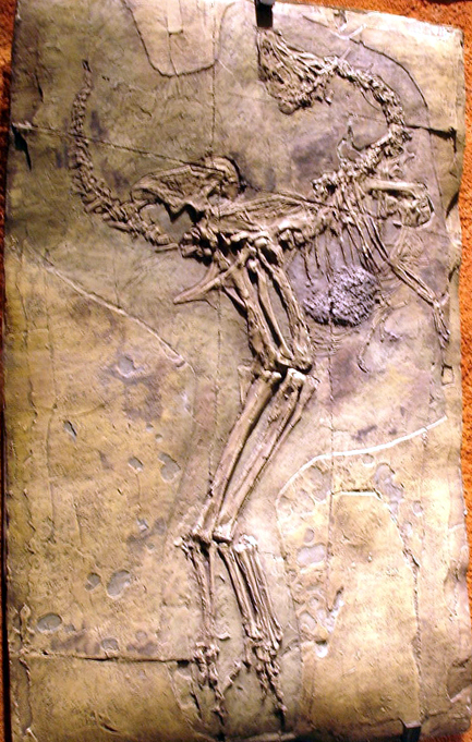 Cast of a Caudipteryx fossil with stomach content, Field Museum